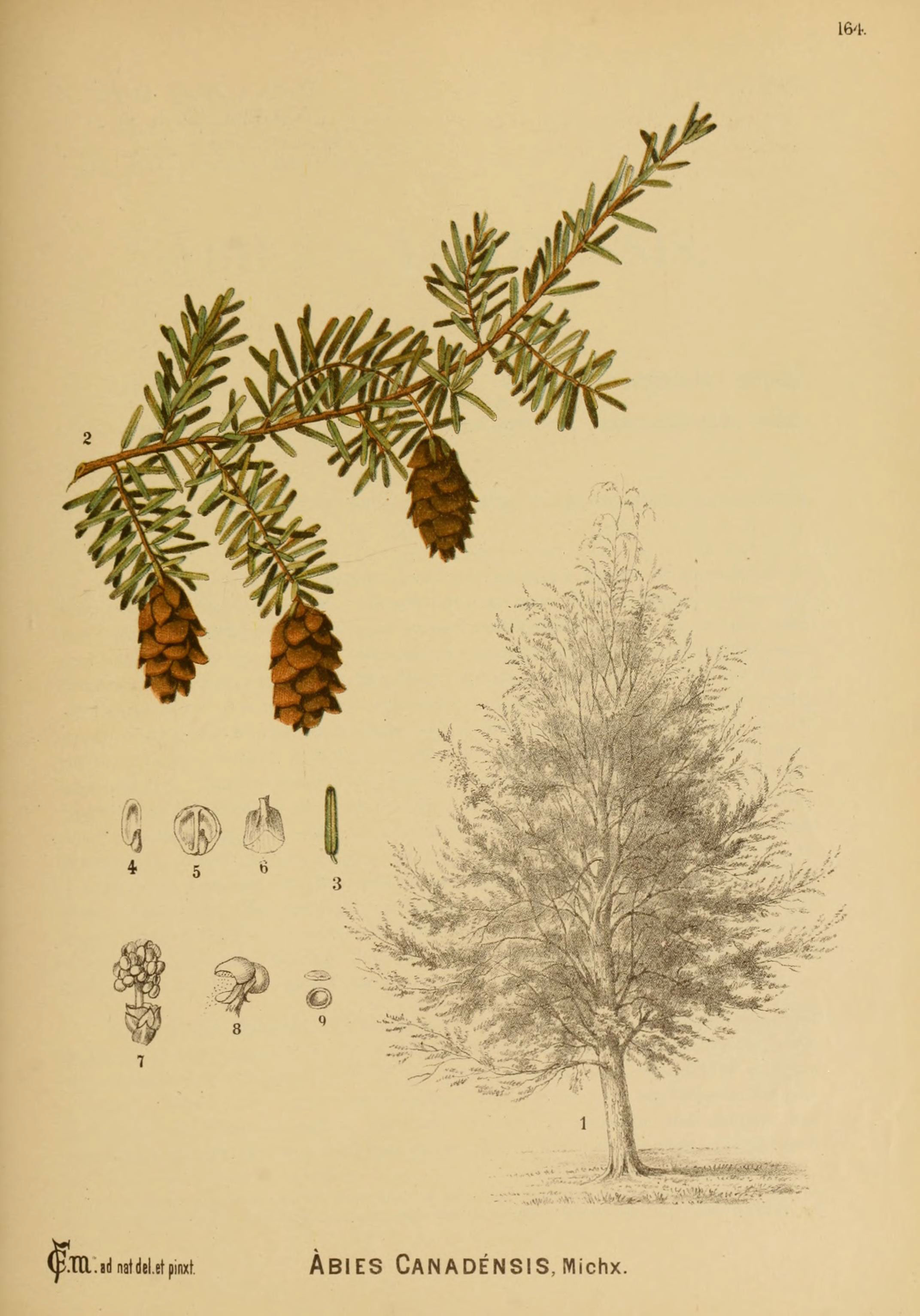 IfrJ.. ^m.id .idnatdcLetpinxt. Abies Canadensis, Michx.